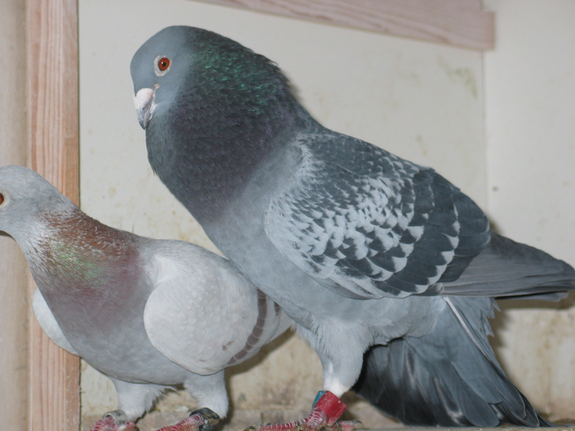 Male homing pigeon, (showing of ;-)